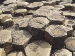 Close up of Giant's Causeway.